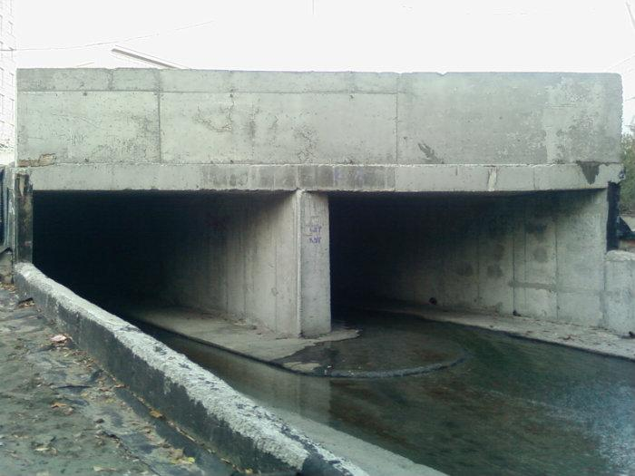 Mouth Klov Stream in Kyiv, Ukraine